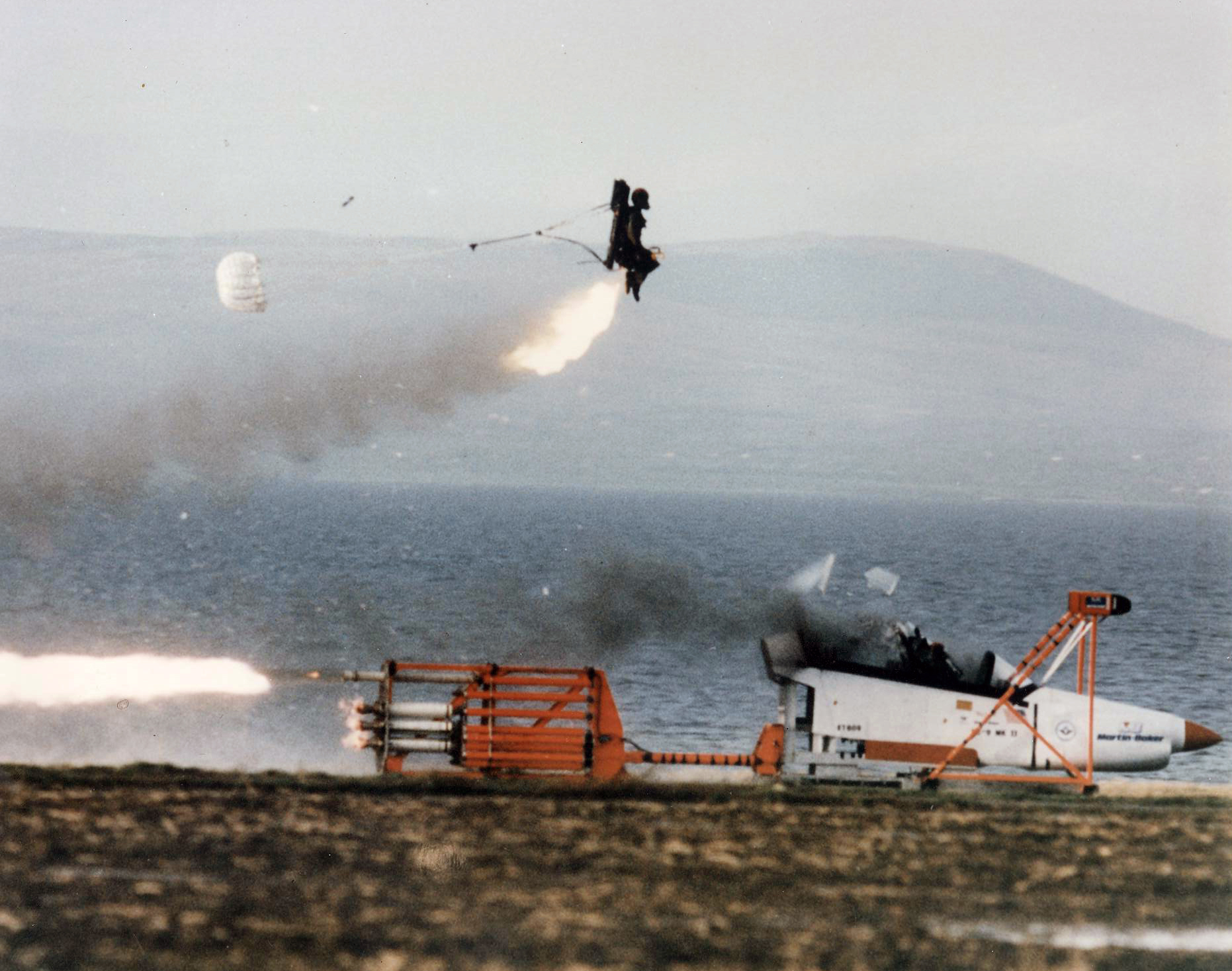 View of testing of a Martin-Baker ejection system for Beech Aircraft's Joint Primary Aircraft Training System entry aircraft, the Beech-Pilatus PC-9 Mark 2. This aircraft later won and was produced as the Beechcraft T-6 Texan II.